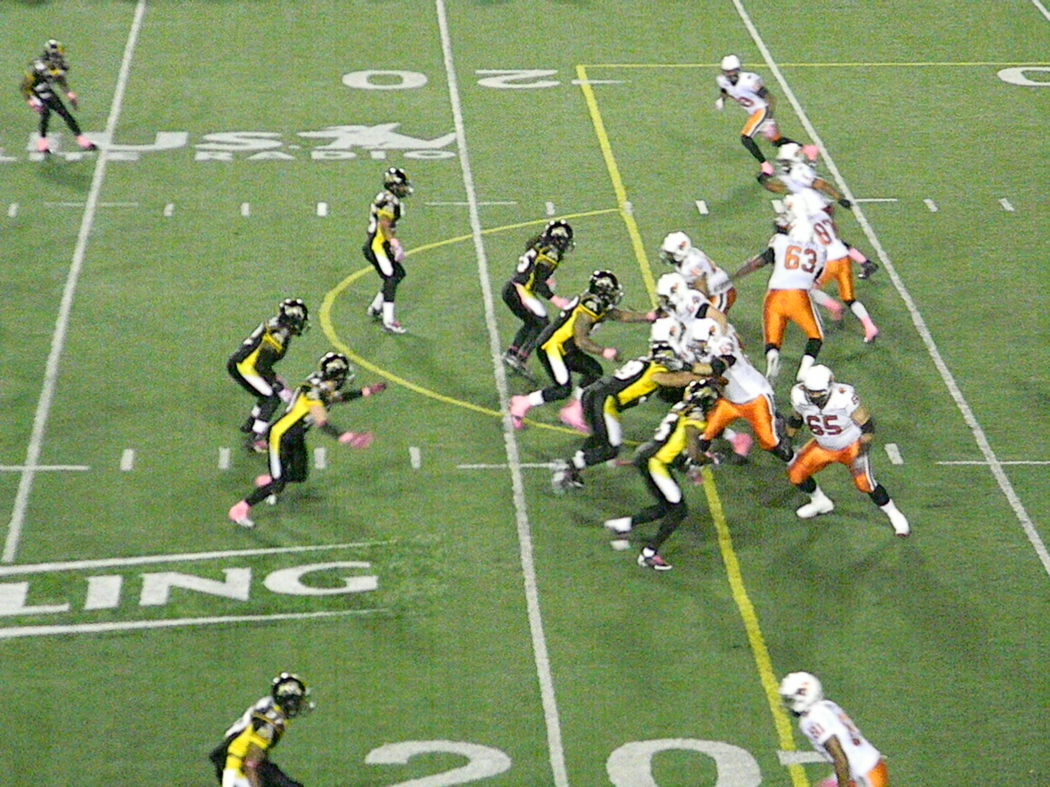 Hamilton Tiger-Cats vs BC Lions 42:10, played on Ivor Wynne Stadium in Hamilton